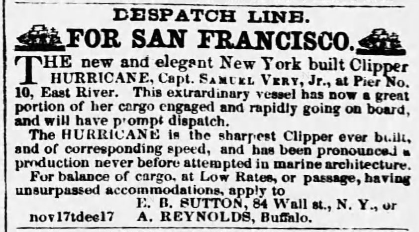 Advertisement for the maiden voyage of the clipper ship Hurricane, built in Hoboken, New Jersey, in 1851.